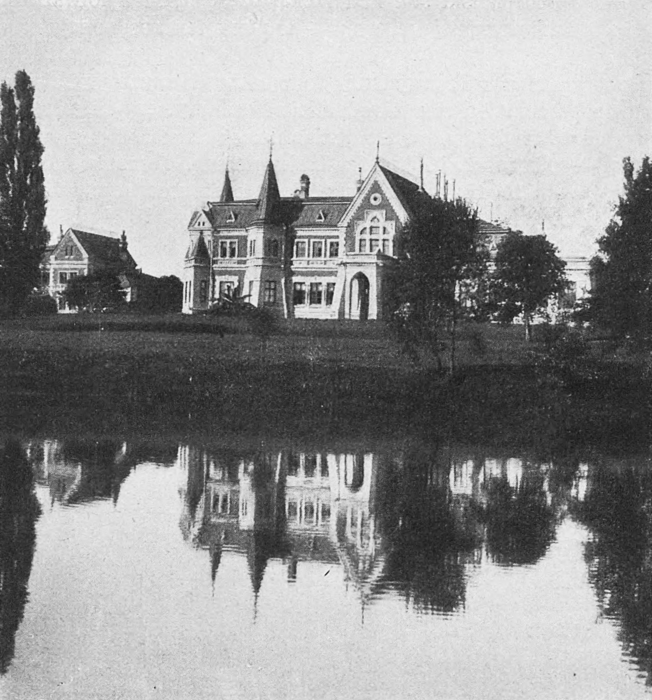 Manor in Krasny Bierah